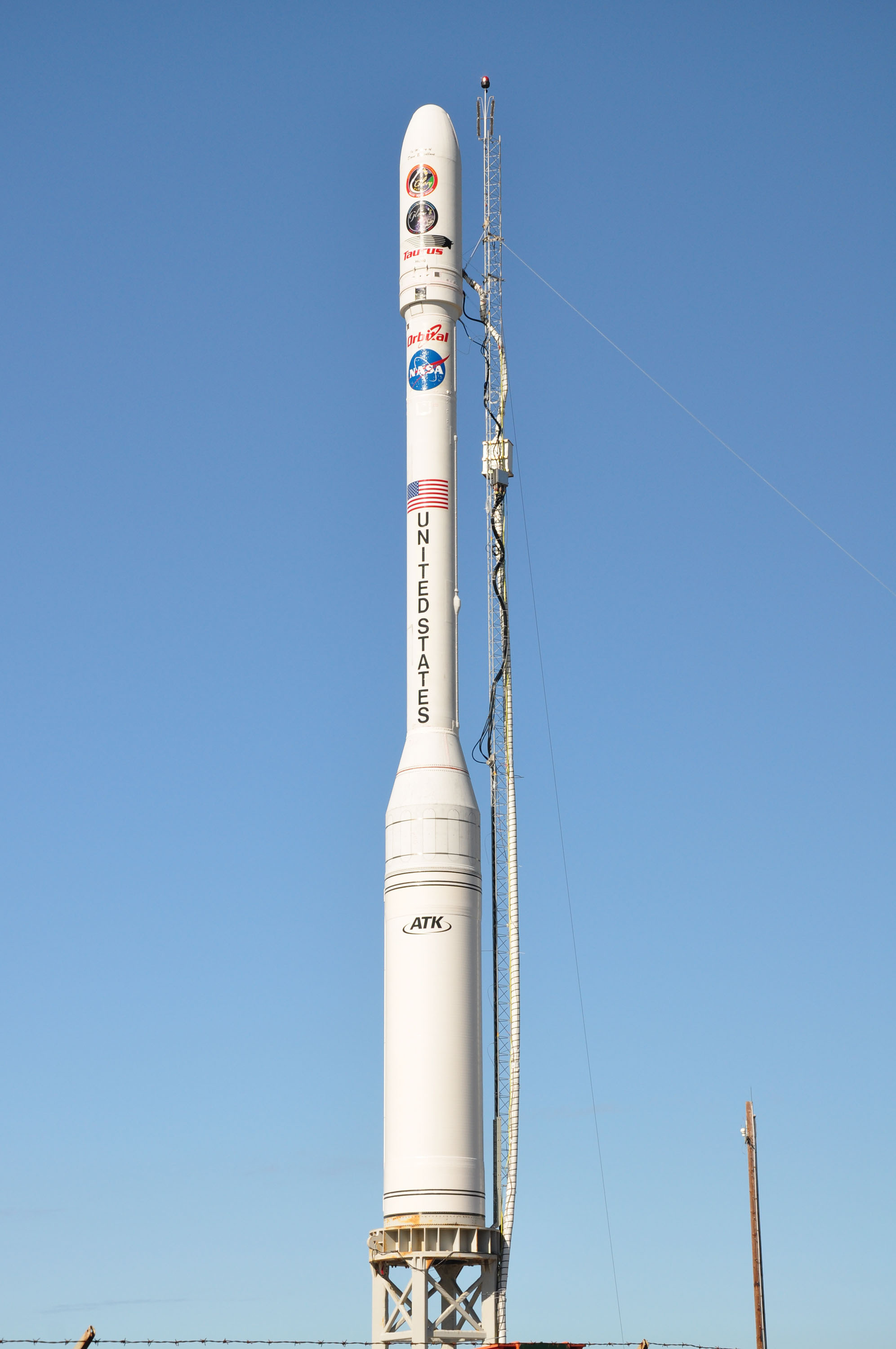 VANDENBERG AIR FORCE BASE, Calif. -- The Orbital Sciences Taurus XL rocket and NASA's encapsulated Glory spacecraft await launch on the pad at Vandenberg Air Force Base's Space Launch Complex 576-E in California. Liftoff originally was scheduled for 5:09 a.m. EST Feb. 23, but was scrubbed for at least 24 hours due to a technical issue that engineers are evaluating. Once Glory reaches orbit, it will collect data on the properties of aerosols and black carbon. It also will help scientists understand how the sun's irradiance affects Earth's climate. For information, visit